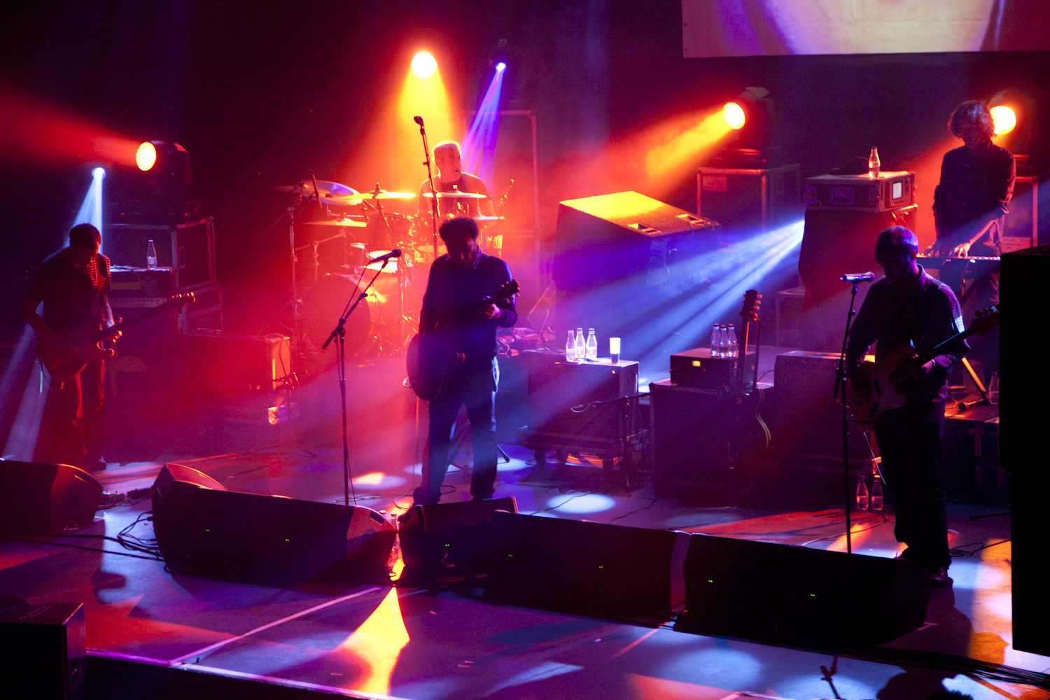 Los Planetas in concert in Barcelona, Spain.